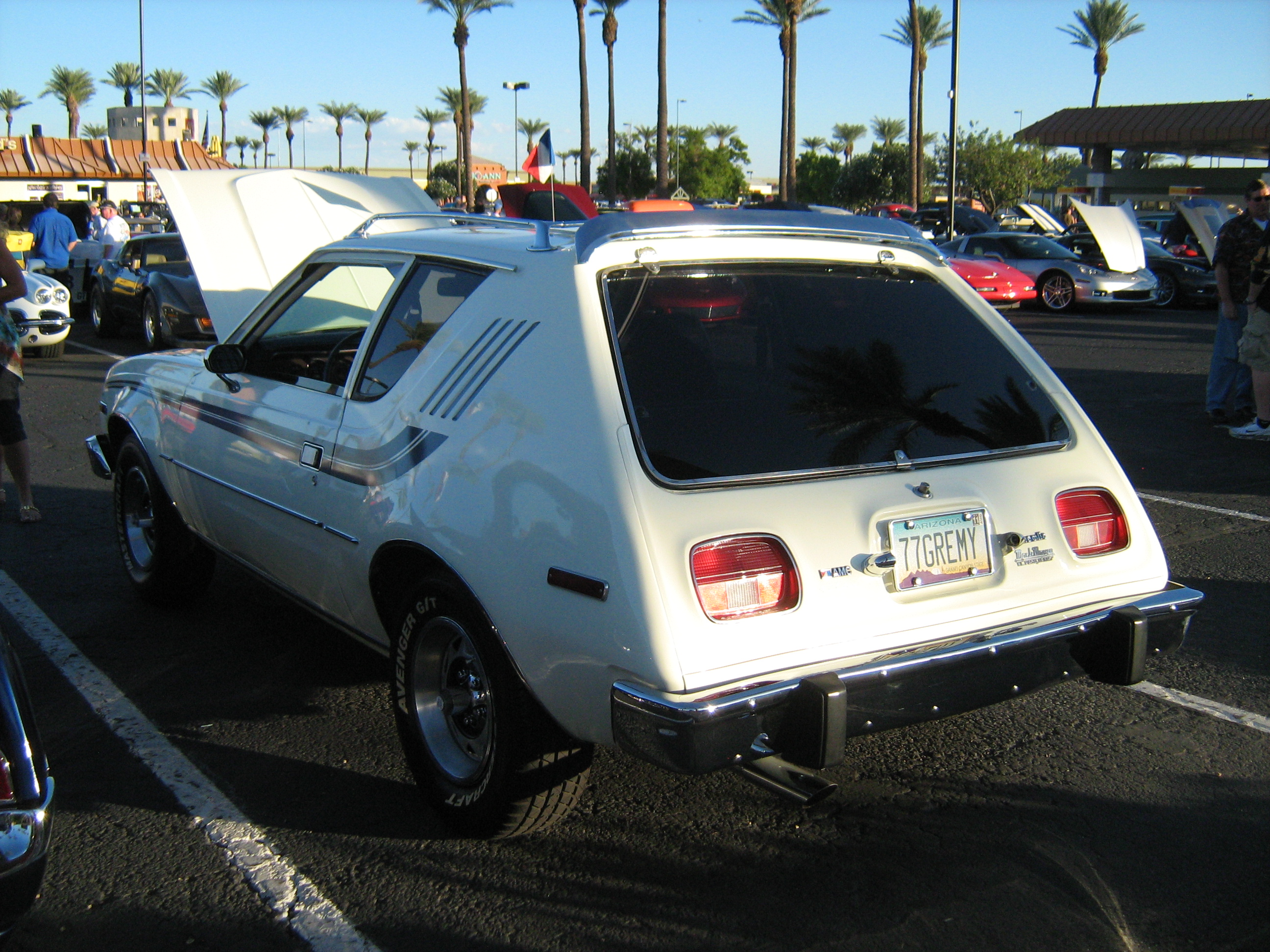 1977 American Motors Corporation (AMC) Gremlin, A two-door subcompact. This "custom" model is finished in white with a blue interior. Note: the optional side stripes for 1977 Custom featured the "hockey stick" version. The "X" model cars received the new a new wave-style that continued to the rear of the body.